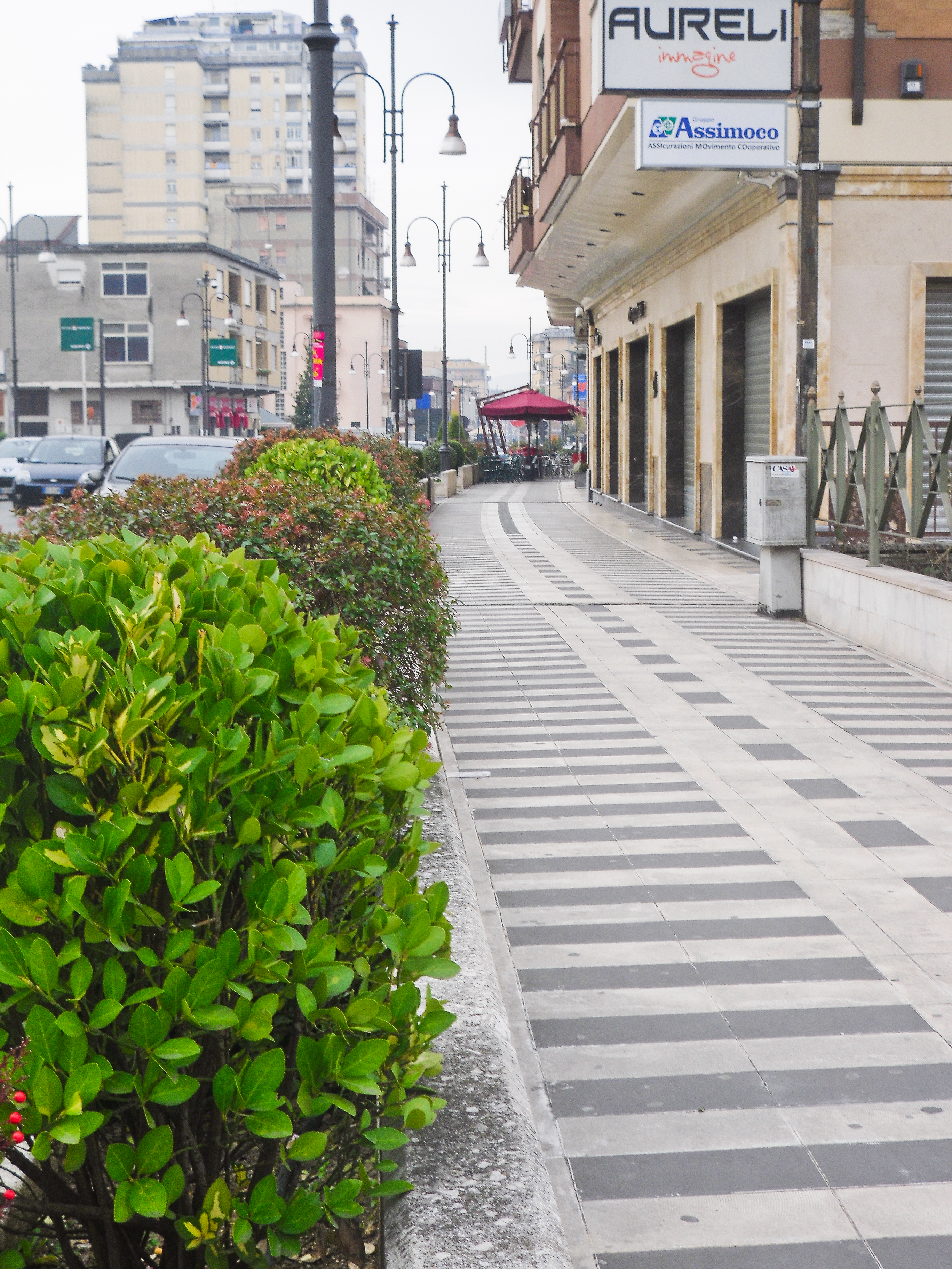 Aldo Moro street in Frosinone, Latium, Italy